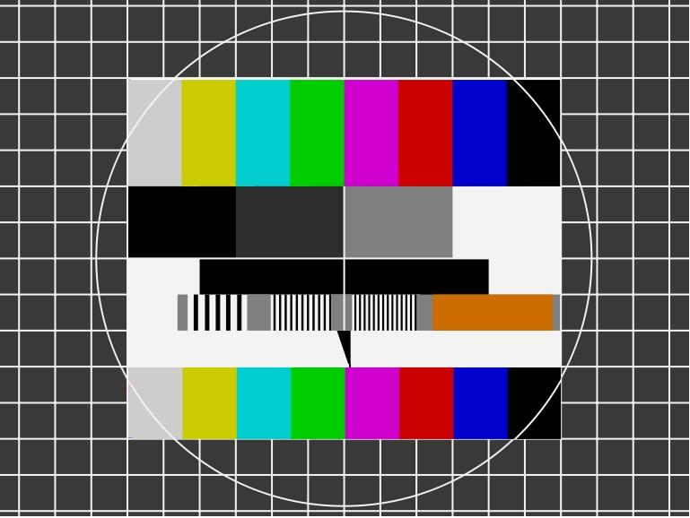 A Iranian variation of The german Telefunken FuBK Testcard